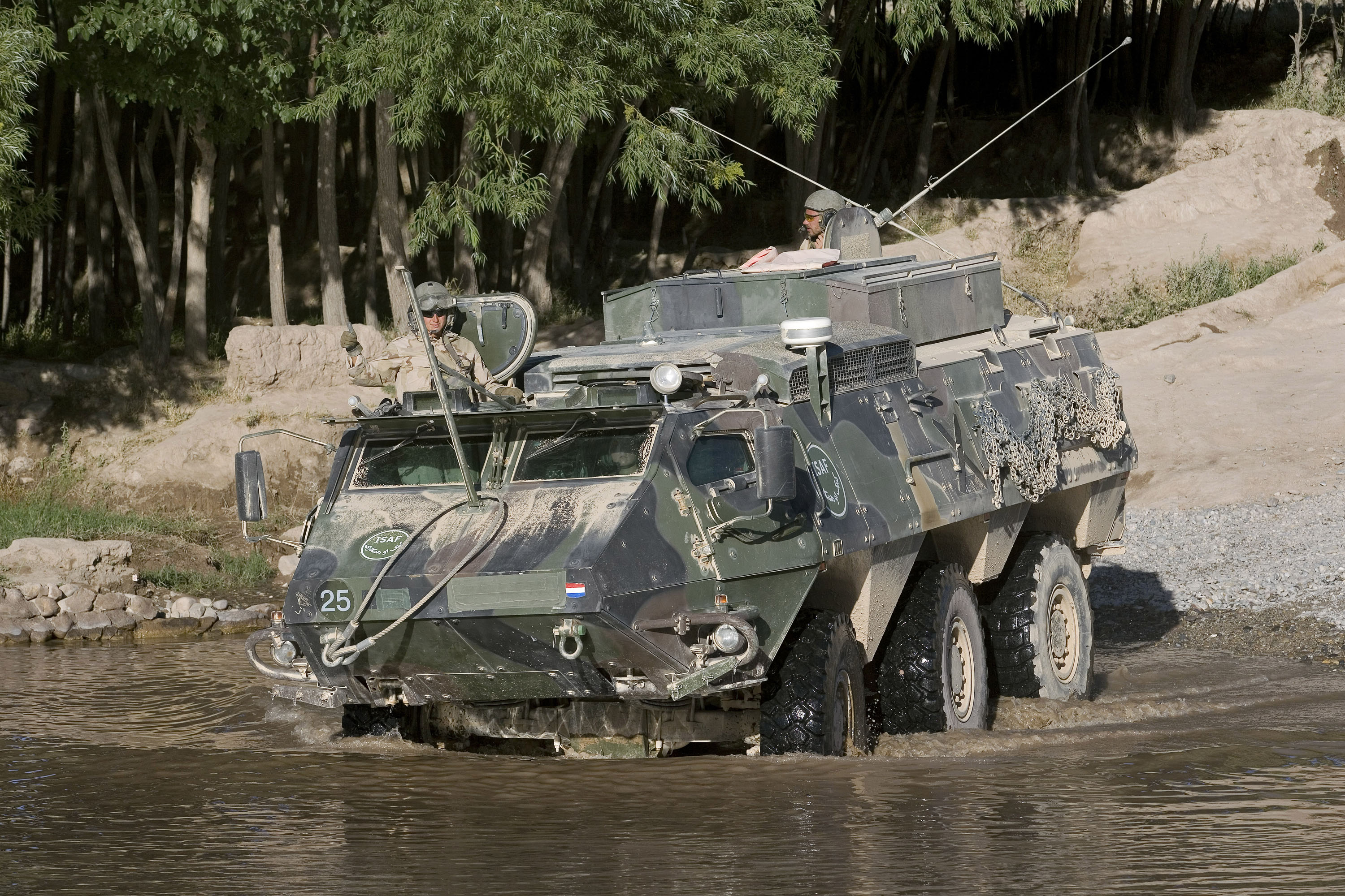 Dutch Patria XA-188